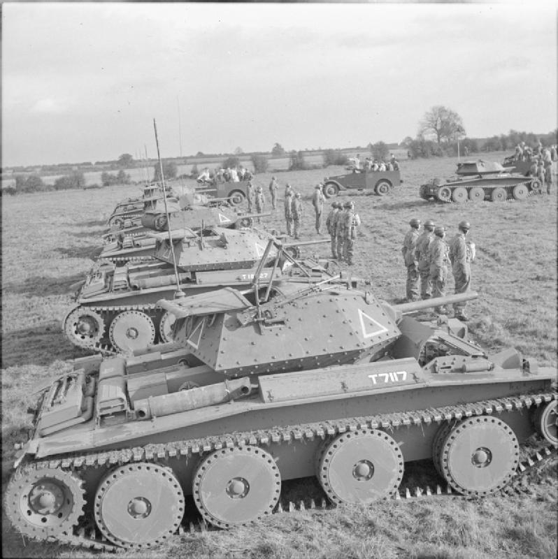 The British Army in the United Kingdom 1939-45 Covenanter tanks of 15th/19th The King's Royal Hussars, 9th Armoured Division, on parade at Wellinborough for an inspection by Sir Alexander Cadogan, Permanent Secretary of Foreign Affairs and other Government officials, 1 November 1941.